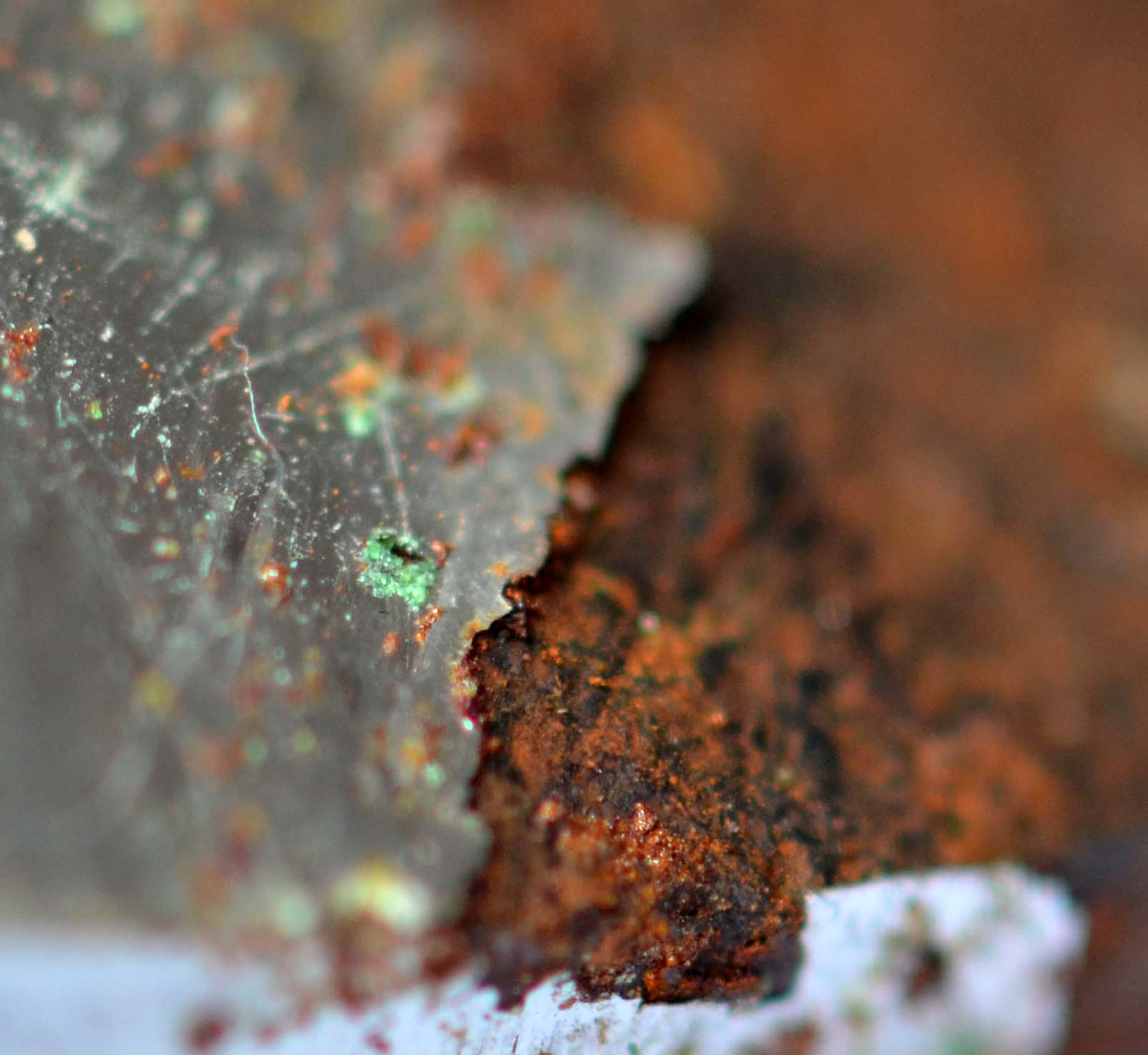 Chrome tool (wrench or adjustable wrench) used on ships at sea corrosion is significant, despite the chrome. It is possible to distinguish local green crystals (copper?)